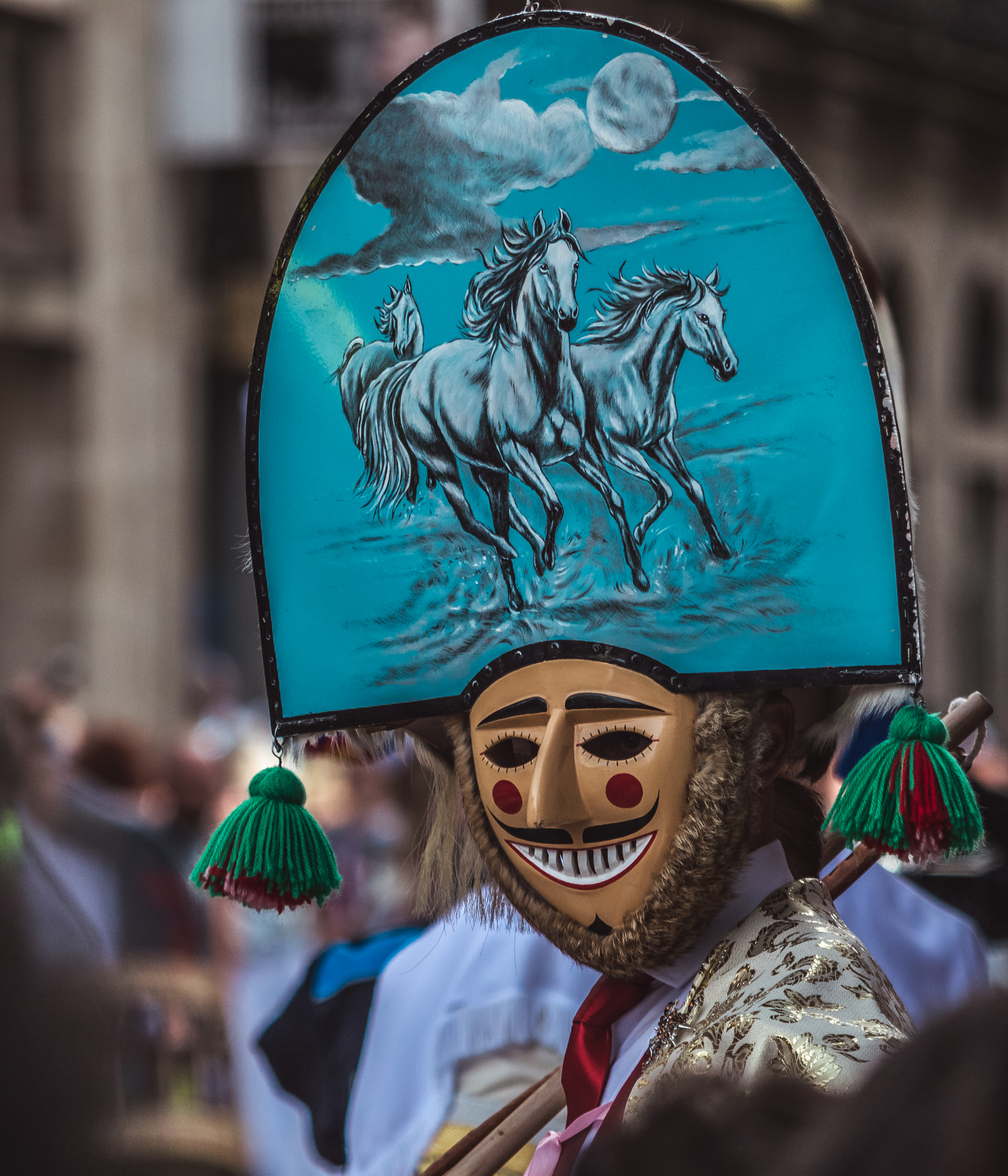 It is characterized by characteristic hats and masks as well as traditional clothing and deafening rattles. This photo has been taken in the country: Spain